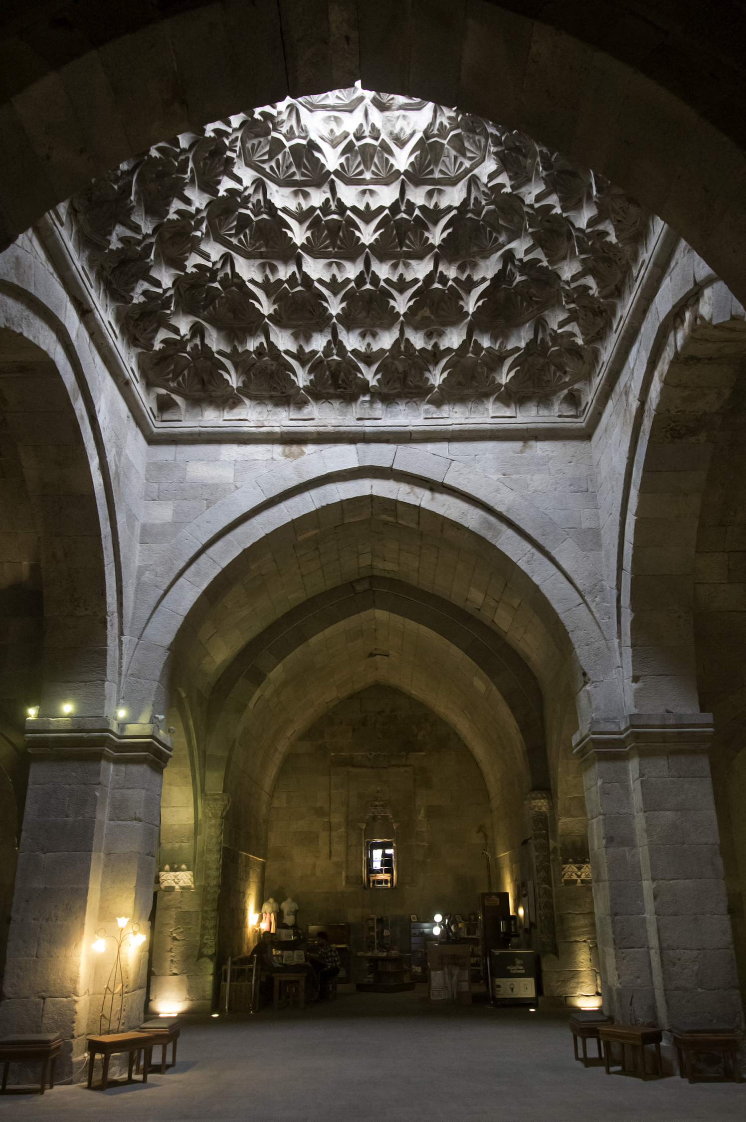 An interior view of Yakutiye Madrasah. Erzurum, Turkey.